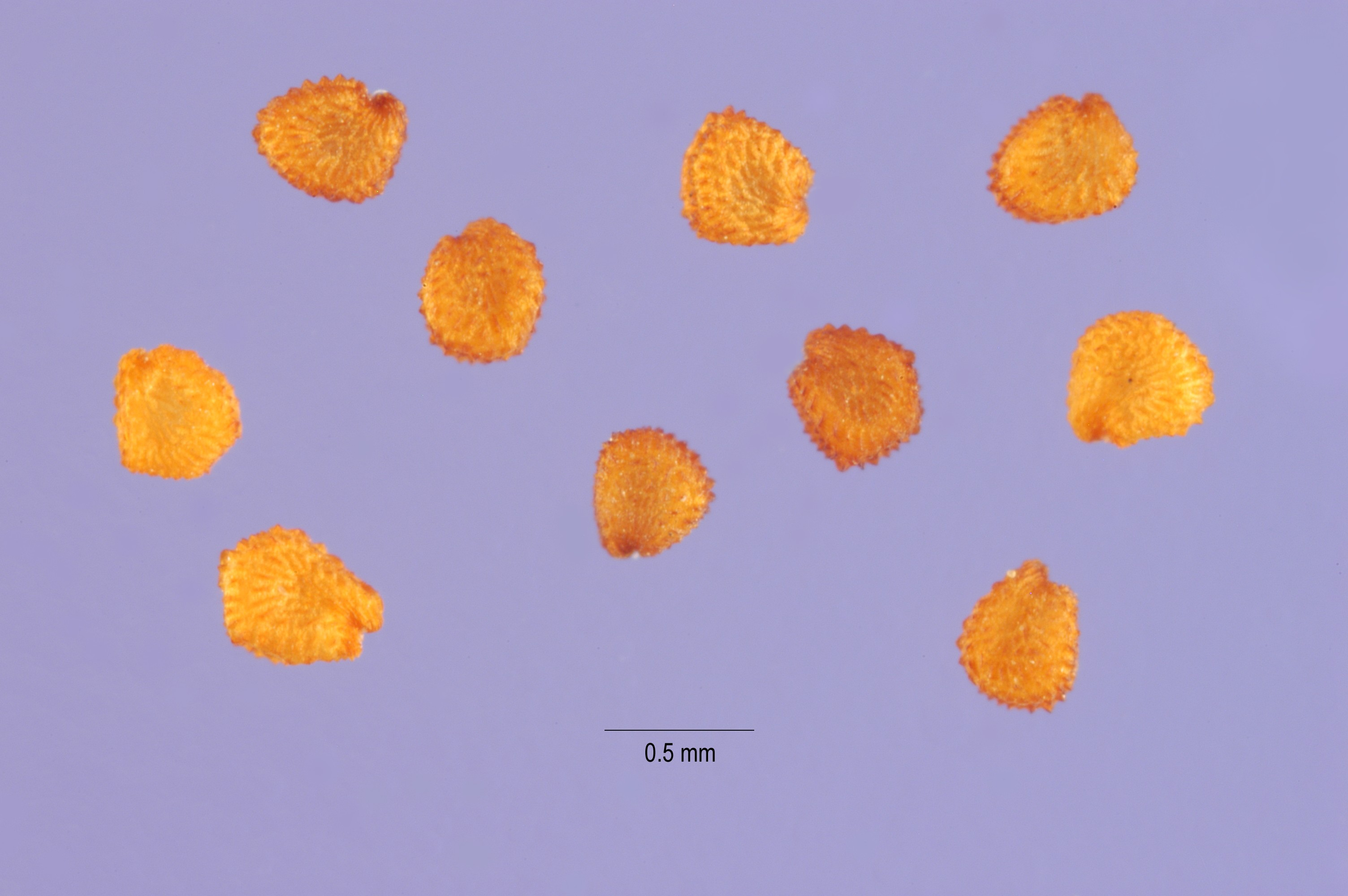 seeds of Cerastium holosteoides